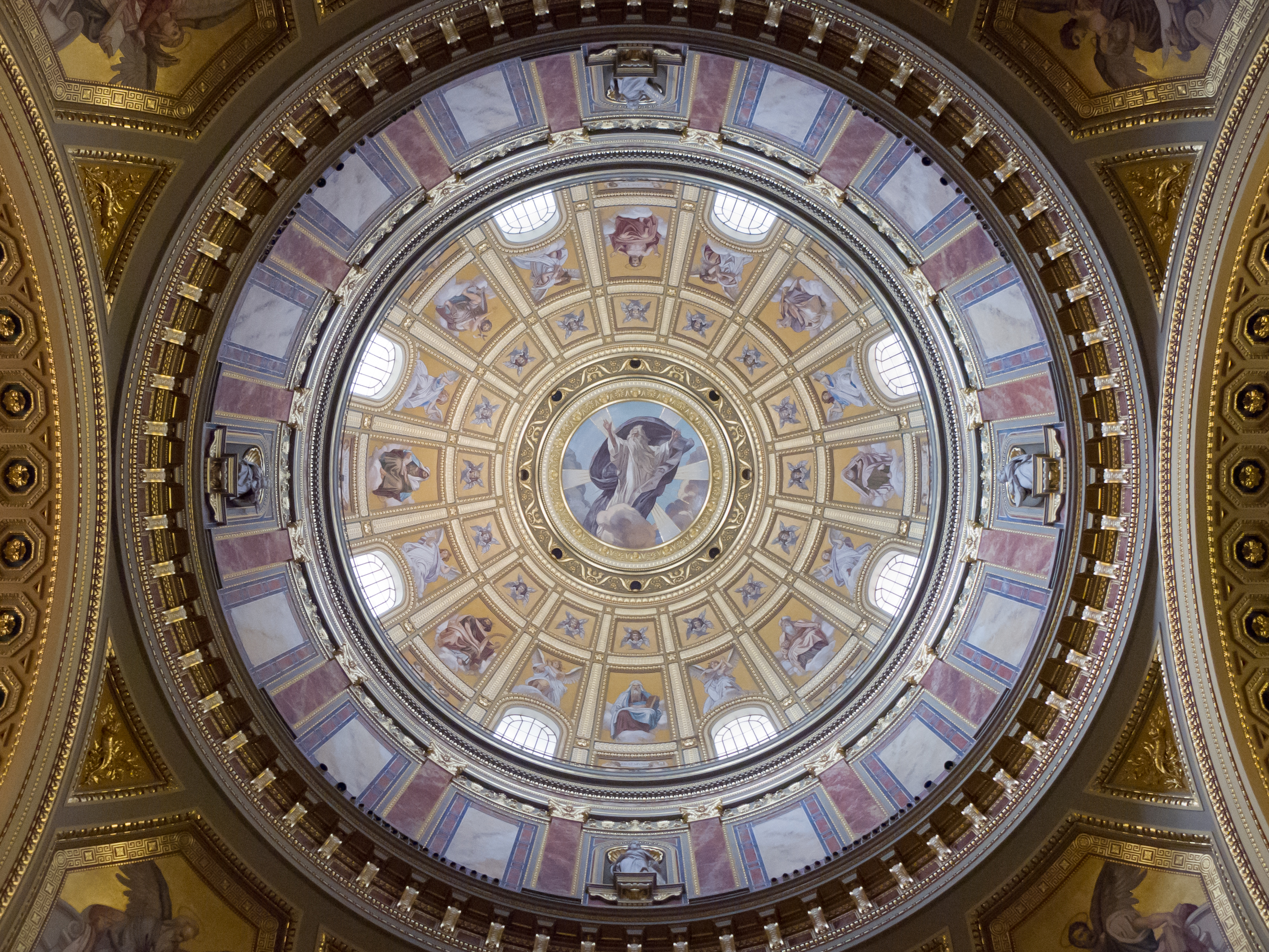 Interior of the cupola of the St. Stephen's Basilica, Budapest, Hungary. This is a photo of a monument in Hungary. Identifier: 615